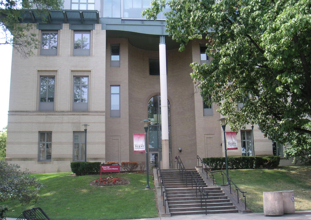 Free use photo provided by Flickr user "Pelampung"- see link at